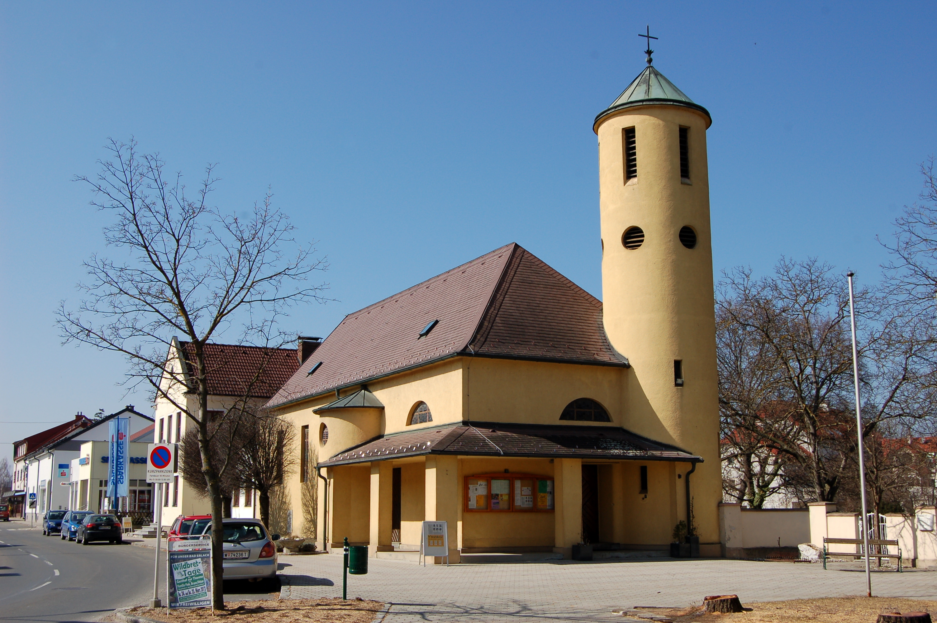 St. Anthony of Padua parish church in Bad Erlach, Lower Austria